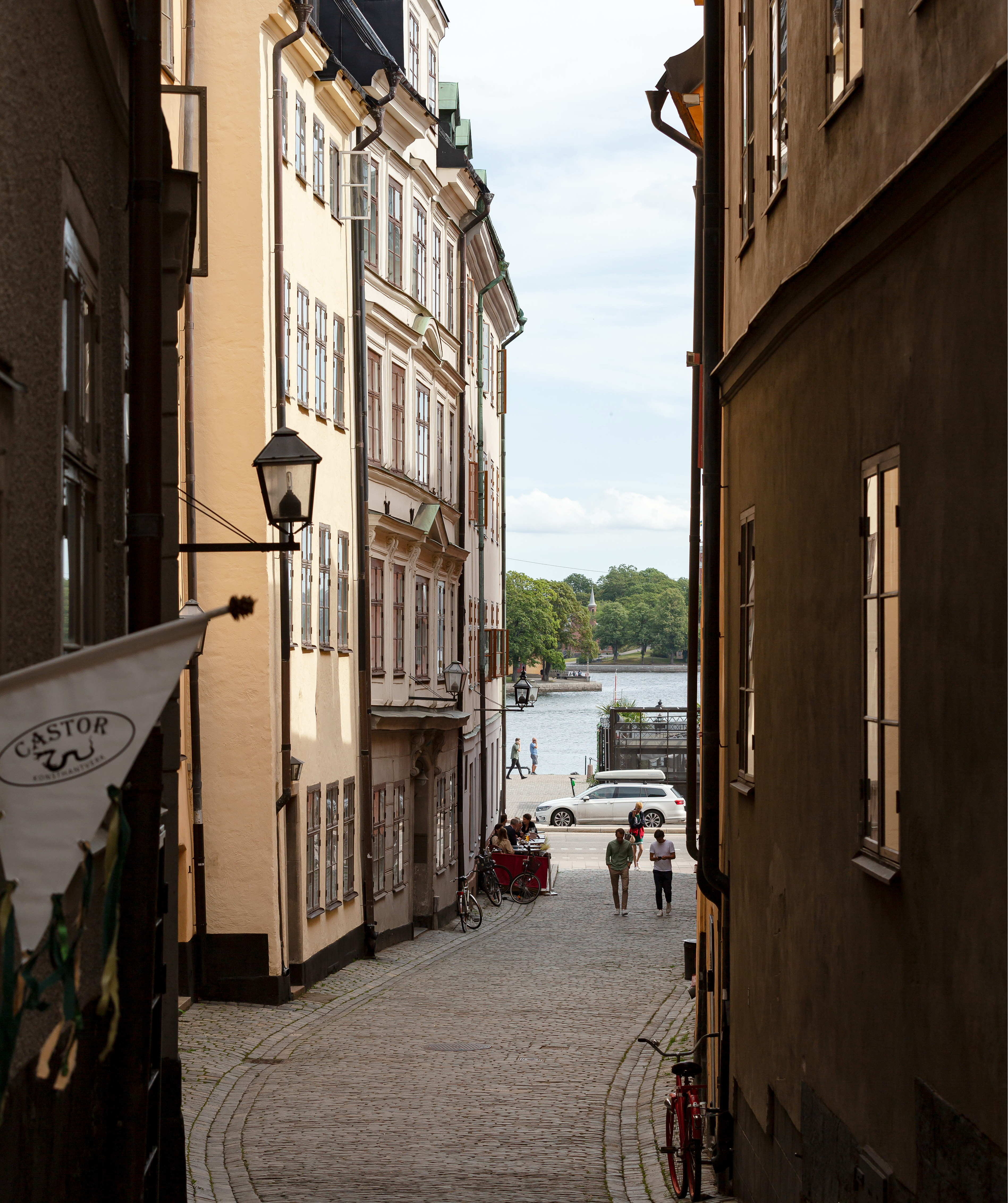 Drakens Gränd, Stockholm